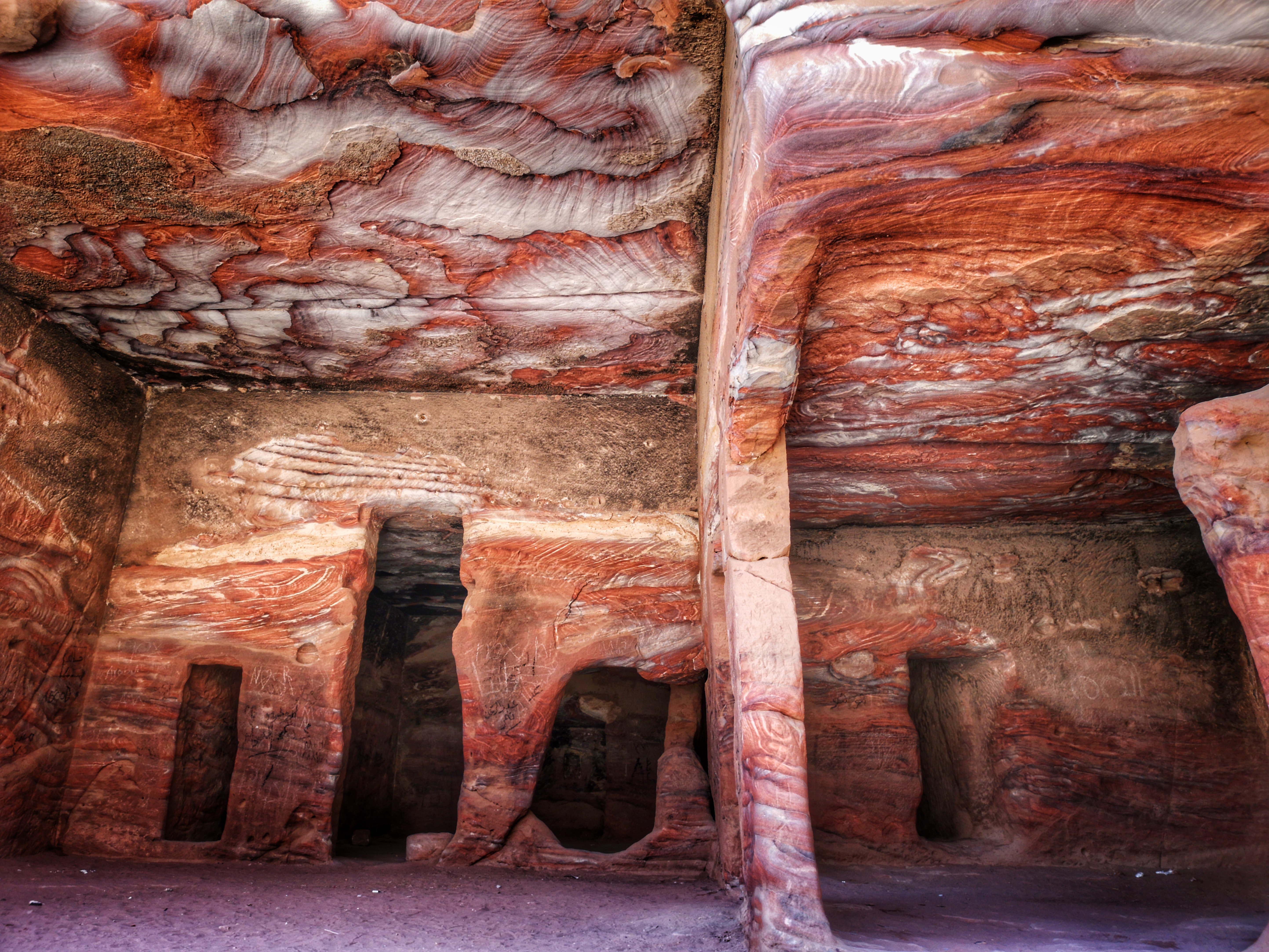 The sandstone carved tombs in the Petra gorge present beautiful colors and patterns.